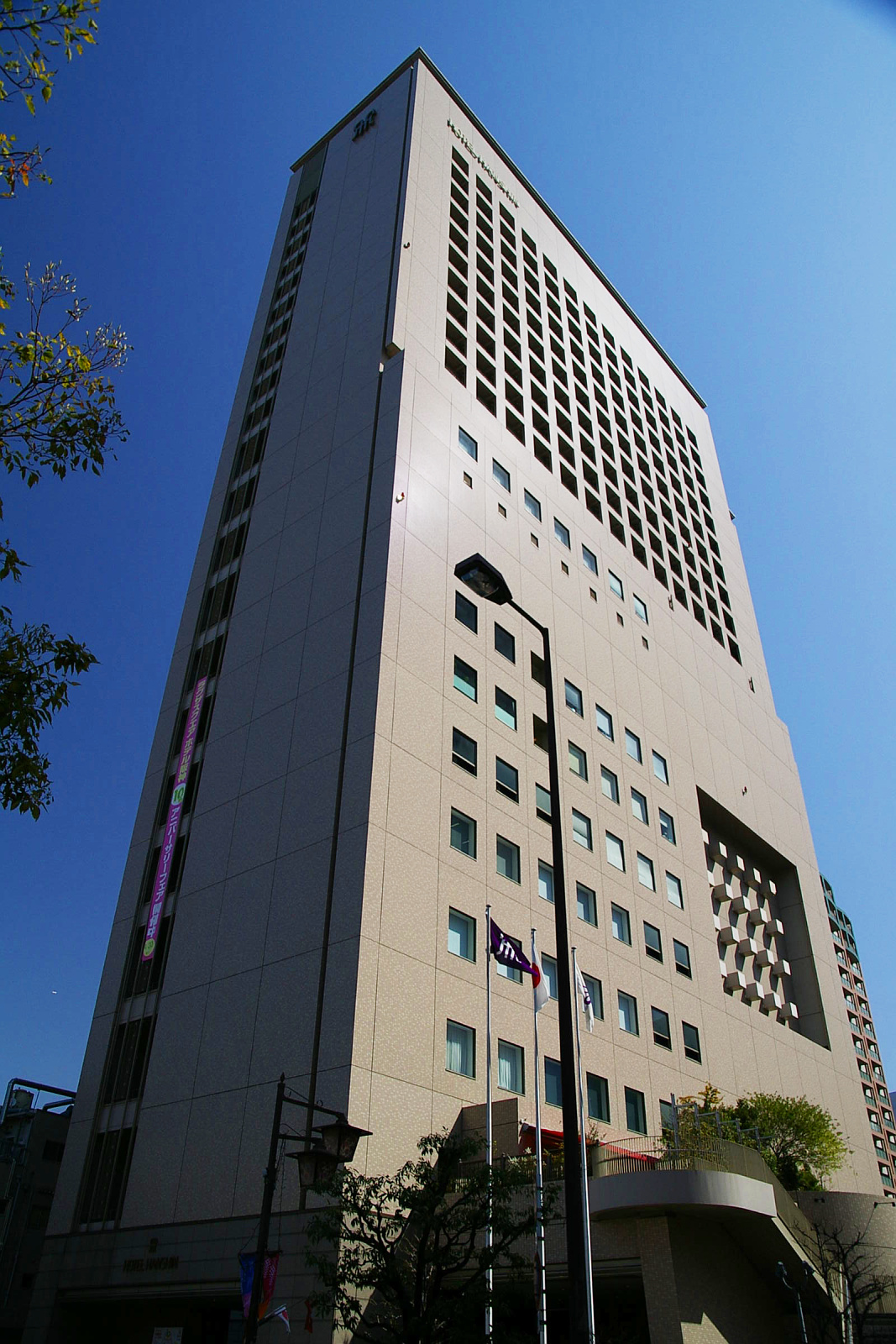 Laxa Osaka (Hotel hanshin), Osaka city, Japan